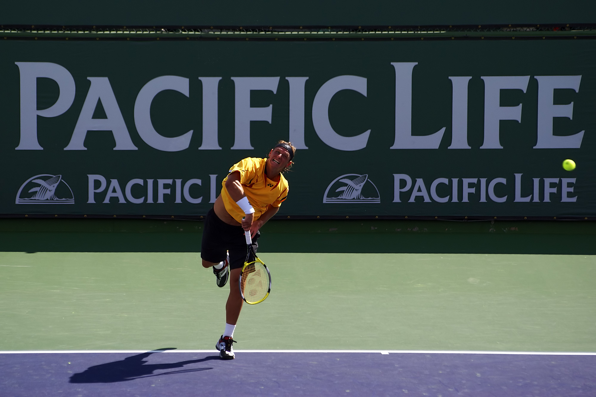 David Nalbandian serves at the 2008 Pacific Life Open in his match against Ernsts Gulbis.